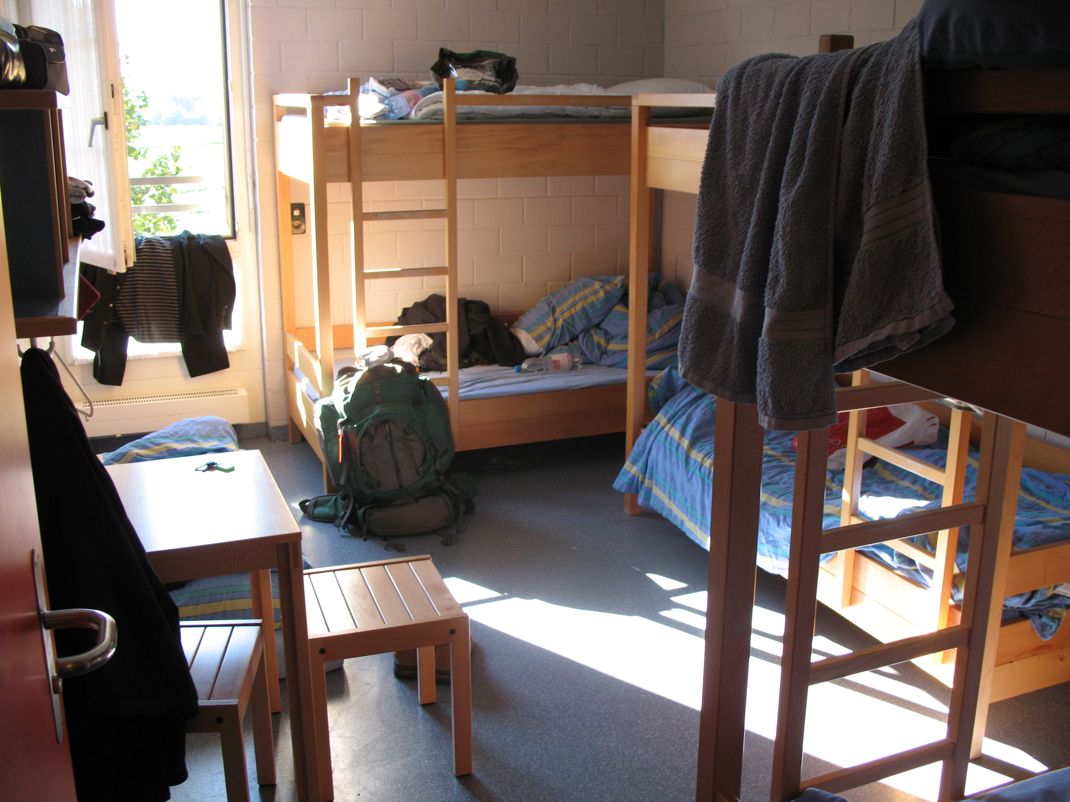 Youth Hostel of Schaan and Vaduz, Vaduz, Liechtenstein